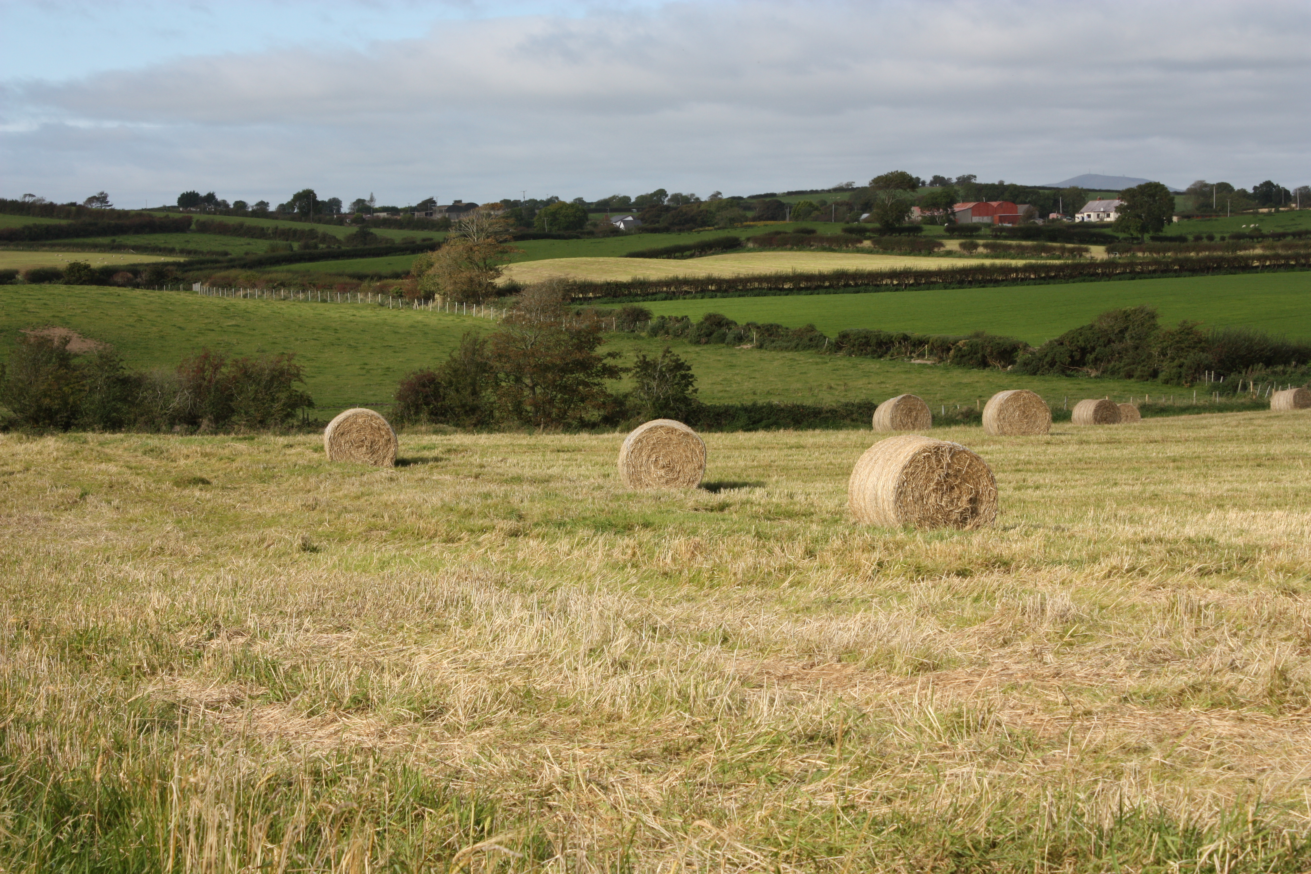 Hay bales, Ballynoe (near Downpatrick), County Down, Northern Ireland, September 2009